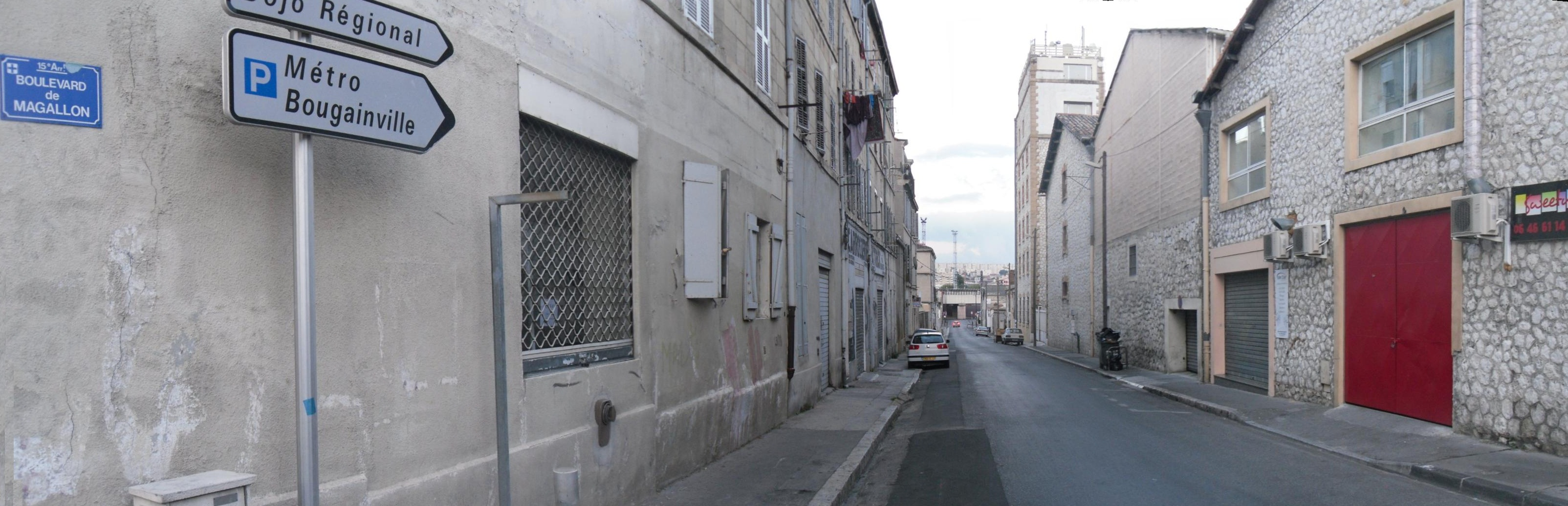 This is an example of a little street named "boulevard" in Marseille. Here, boulevard Magallon, located in the 15th district of the city, near "Bougainville" metro station.